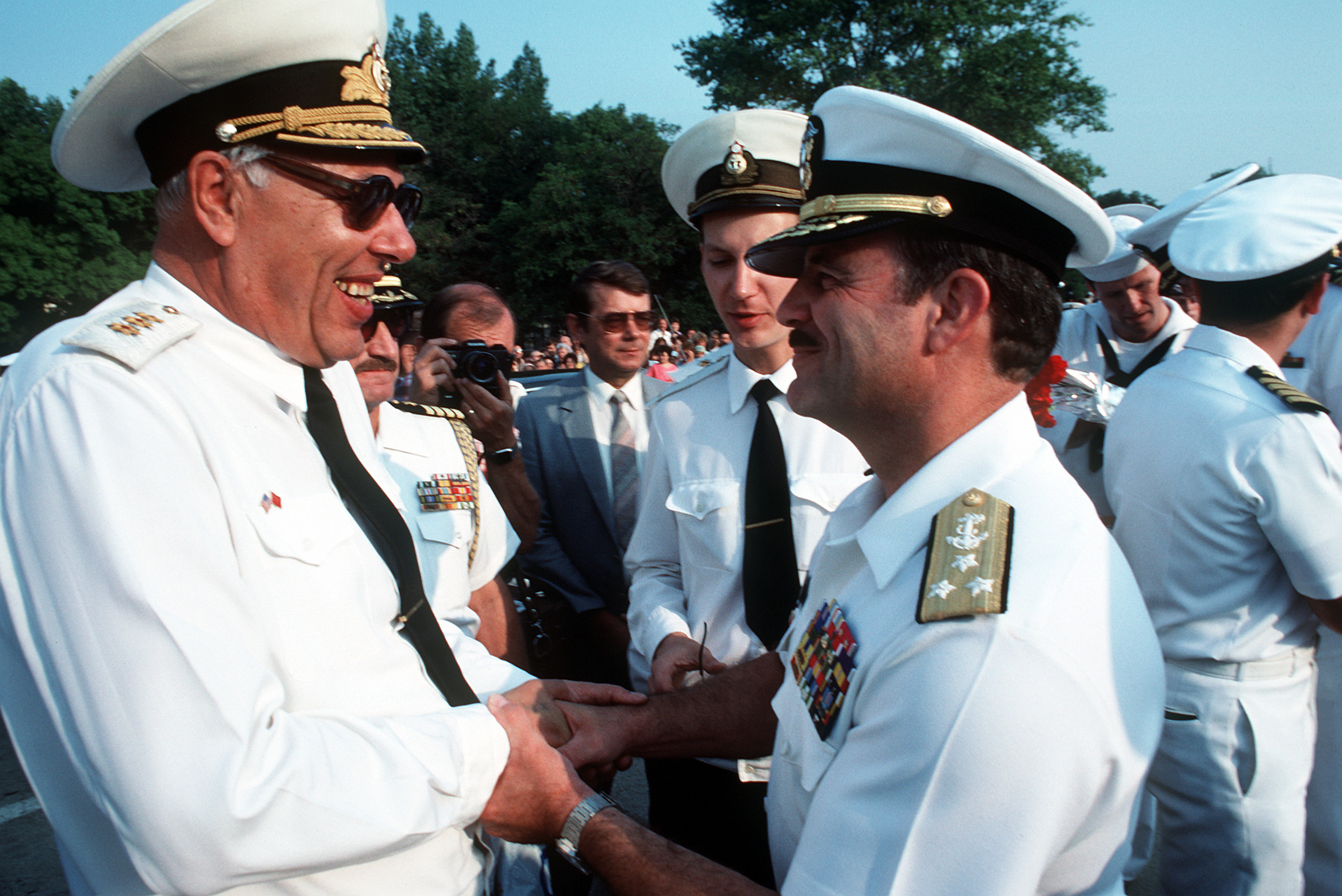 Vice Adm. Paul Ilg, deputy commander-in-chief, U.S. Naval Forces Europe, talks with Black Sea Fleet Commander-in-Chief Adm. Mikhail Khronopulo during the goodwill visit of the Aegis guided missile cruiser USS THOMAS S. GATES (CG-51) and the guided missile frigate USS KAUFFMAN (FFG-59). It is the second such visit to a Soviet port by U.S. warships since World War II.